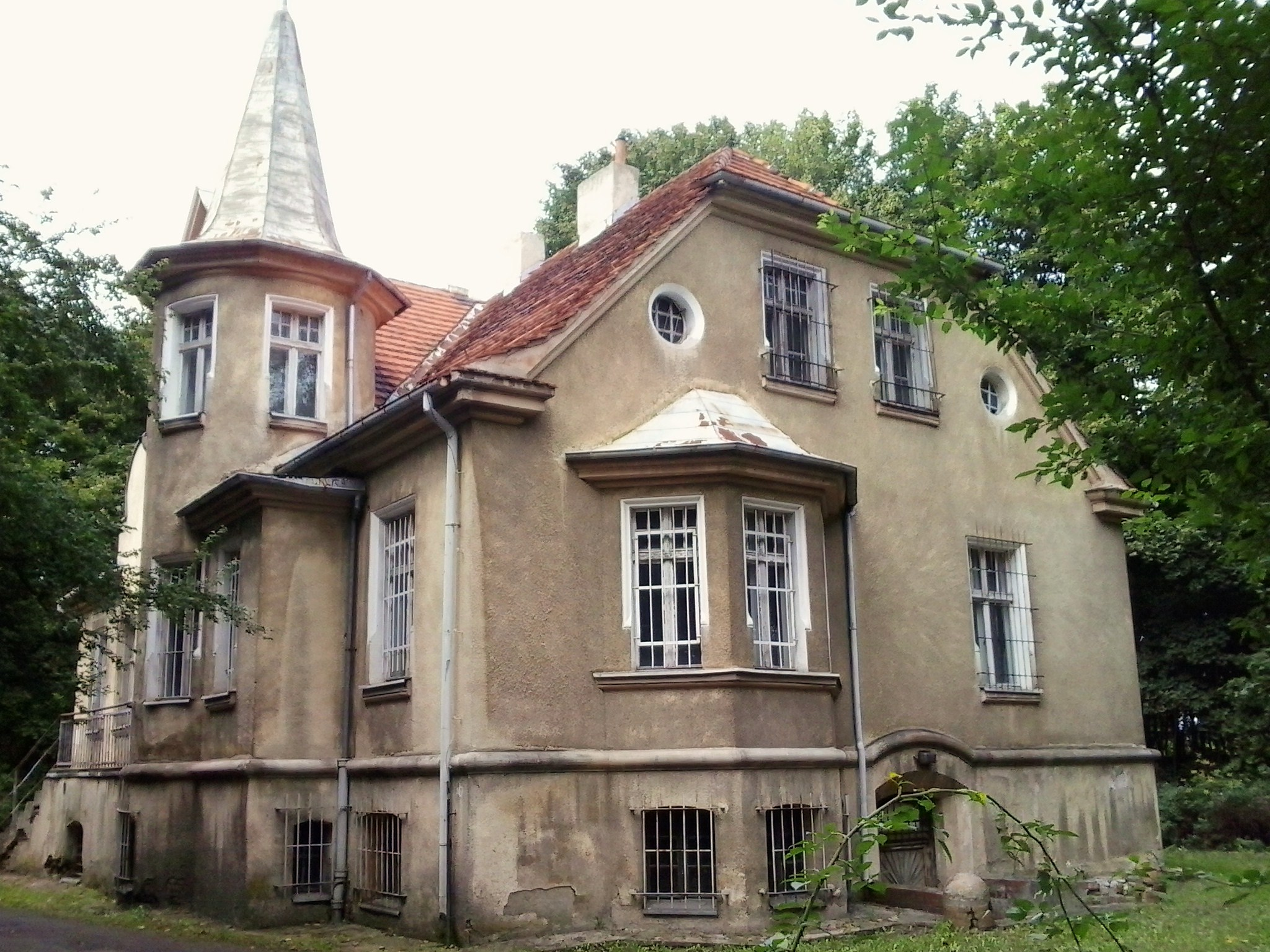 Edwardowo Farm in Poznań.